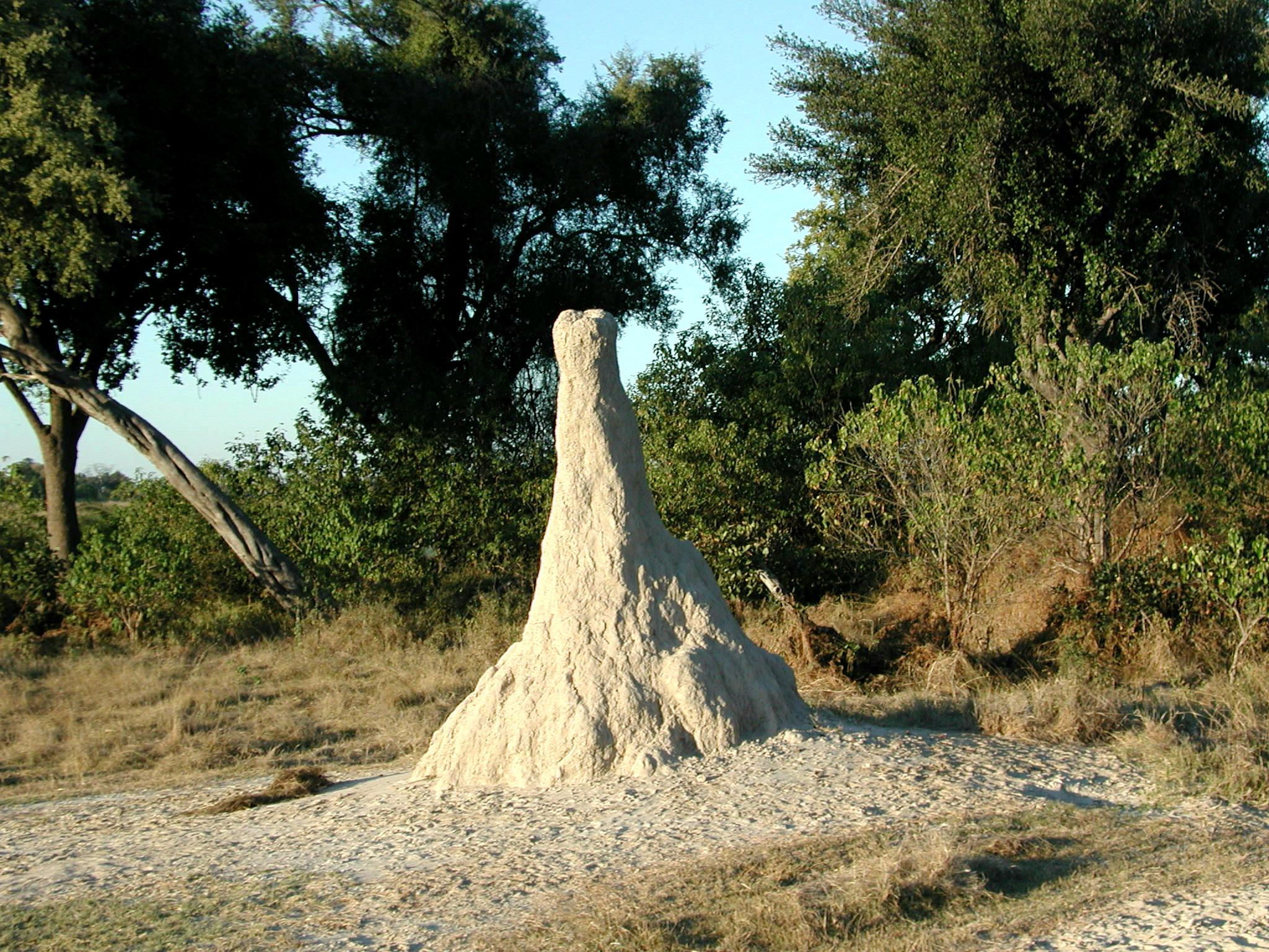 An almost 3 m high termite mound in Botswana. Original caption:You'd expect the Webmaster of Fourmilab to have a thing about ants, but I also rejoiced to encounter the next best thing--termites--upon arriving in Botswana. These are serious termites, not the tiddlers that munch on the lumber of your house! This termite mound is almost three metres in height. Termites build them with an intricate ventilation system which maintains a close to constant temperature inside--human architects have recently applied this insect-developed technology to office buildings.Termite mounds are often found adjacent to trees (there was a huge one next to the tree which shaded our tent at Vumbura Camp). They are often the first step in the local ecosystem succession; the termite mound raises soil from the low-lying and frequently flooded river delta, which is then colonised by small plants and eventually trees. This is a relatively new mound, adjacent to a largely flooded area. Termites stay within the mound during the winter season; they are active only during the hot summer months.